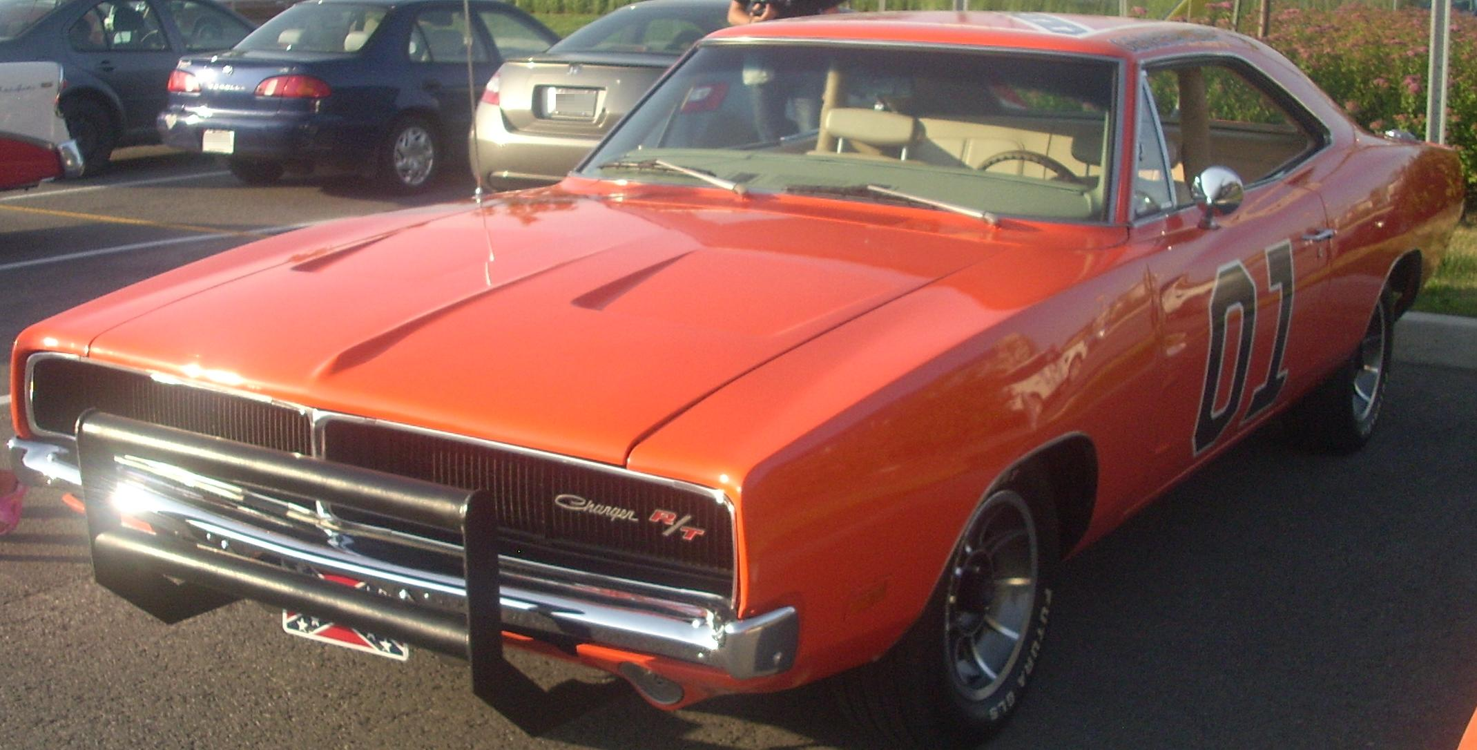 Dodge Charger R/T photographed in Laval, Quebec, Canada at Centropolis Laval.